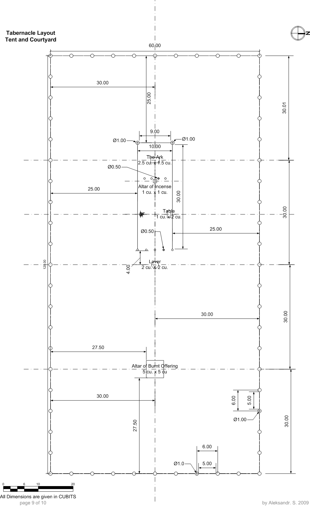 Tabernacle Layout acording to the original description from the Five Books of Moses - Tent and Courtyard Dimensions